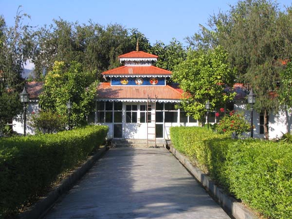 Ratan Thiyam's Chorus Repertory Theatre is one of the theatre groups which had earned international acclaims with its path breaking plays and introduces Manipur to the rest of the world.